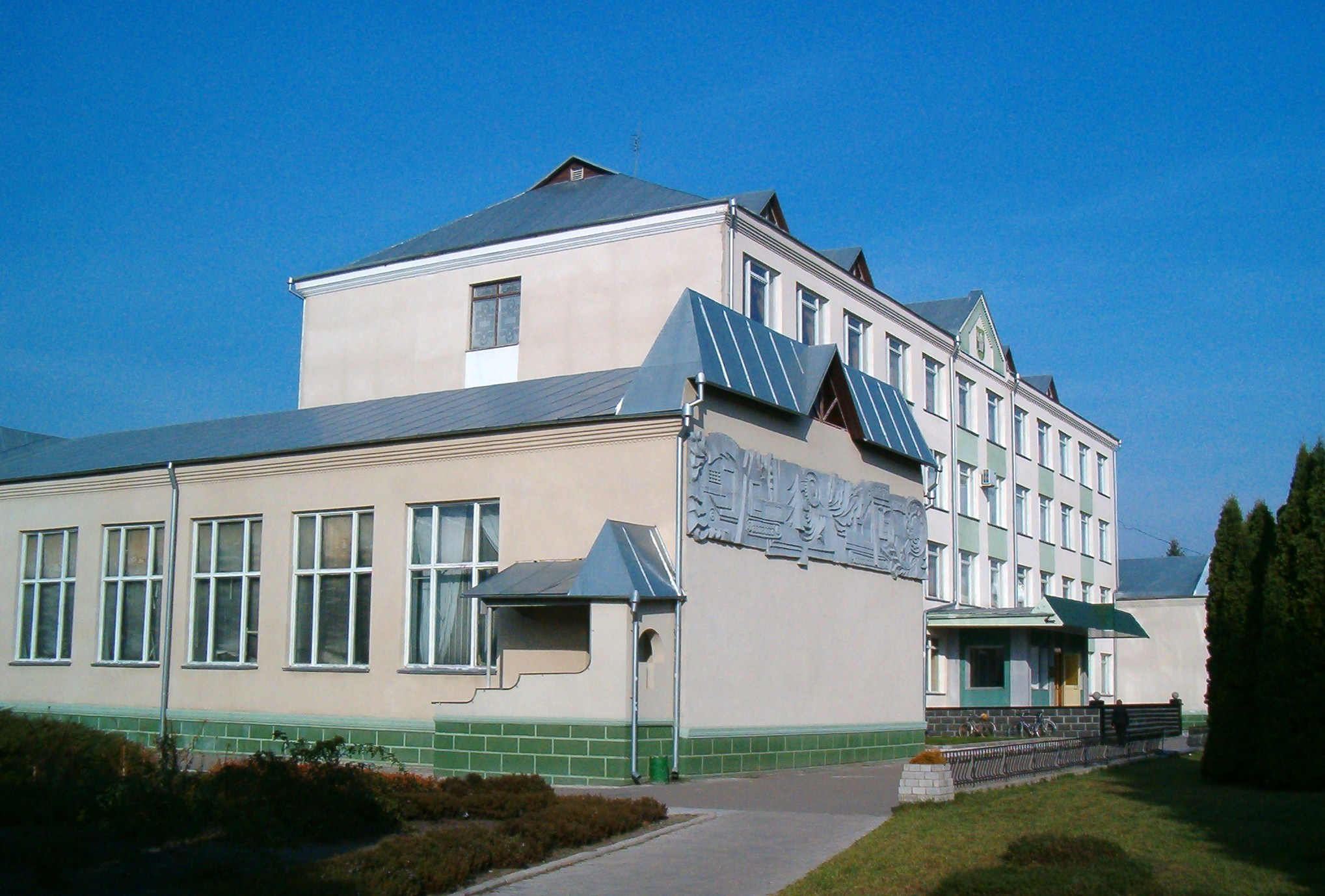 The Berezne Forestry College, main building